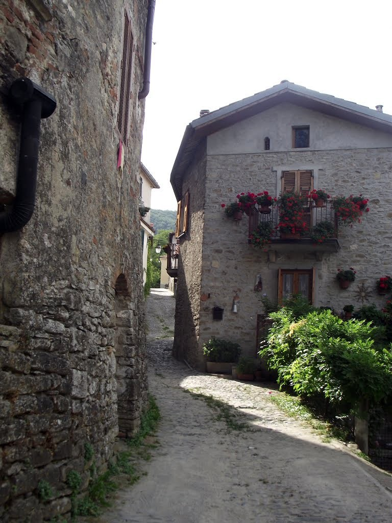 Mombaldone, landscape